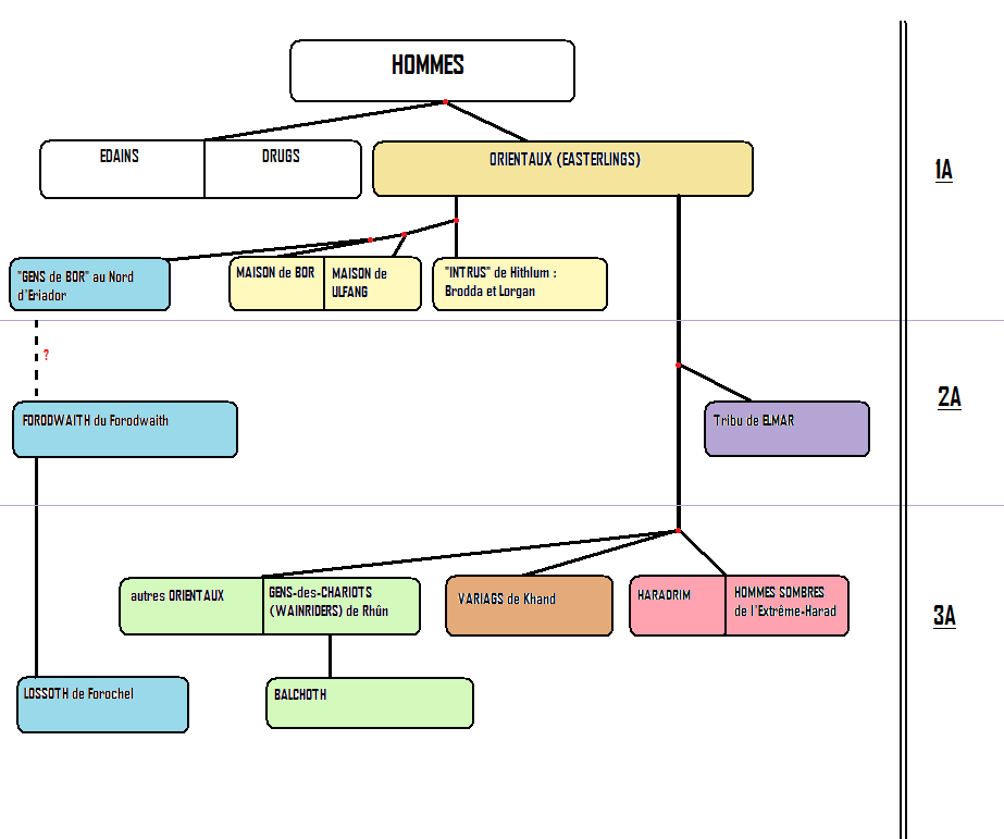 Modification of the picture : Divisions des Orientaux de Terre du Milieu (Tolkien).png. In French.